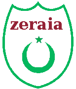 Zeraia Coat of Arms